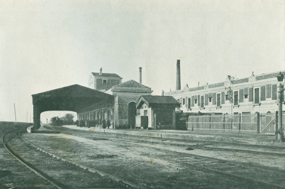 Mataró old train station (1848-1905).